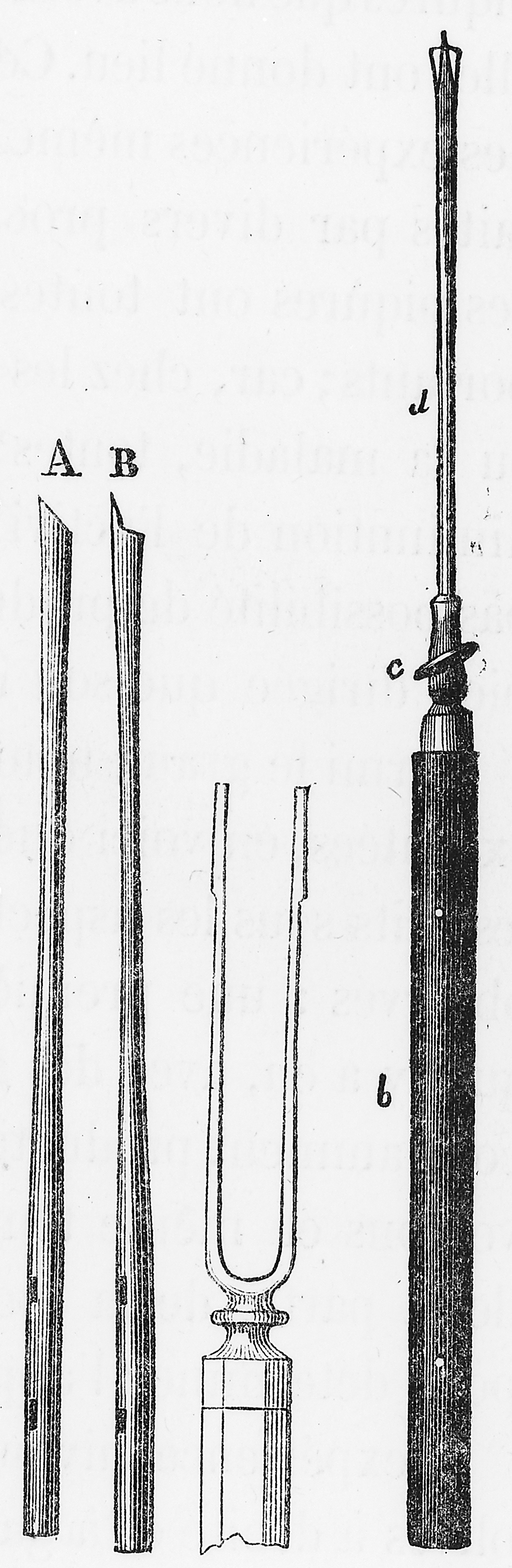 Instruments for puncturing 4th ventricle General Collections Keywords: Claude Bernard; Pathology; Nervous System; Physiology; pathology of the nervous system